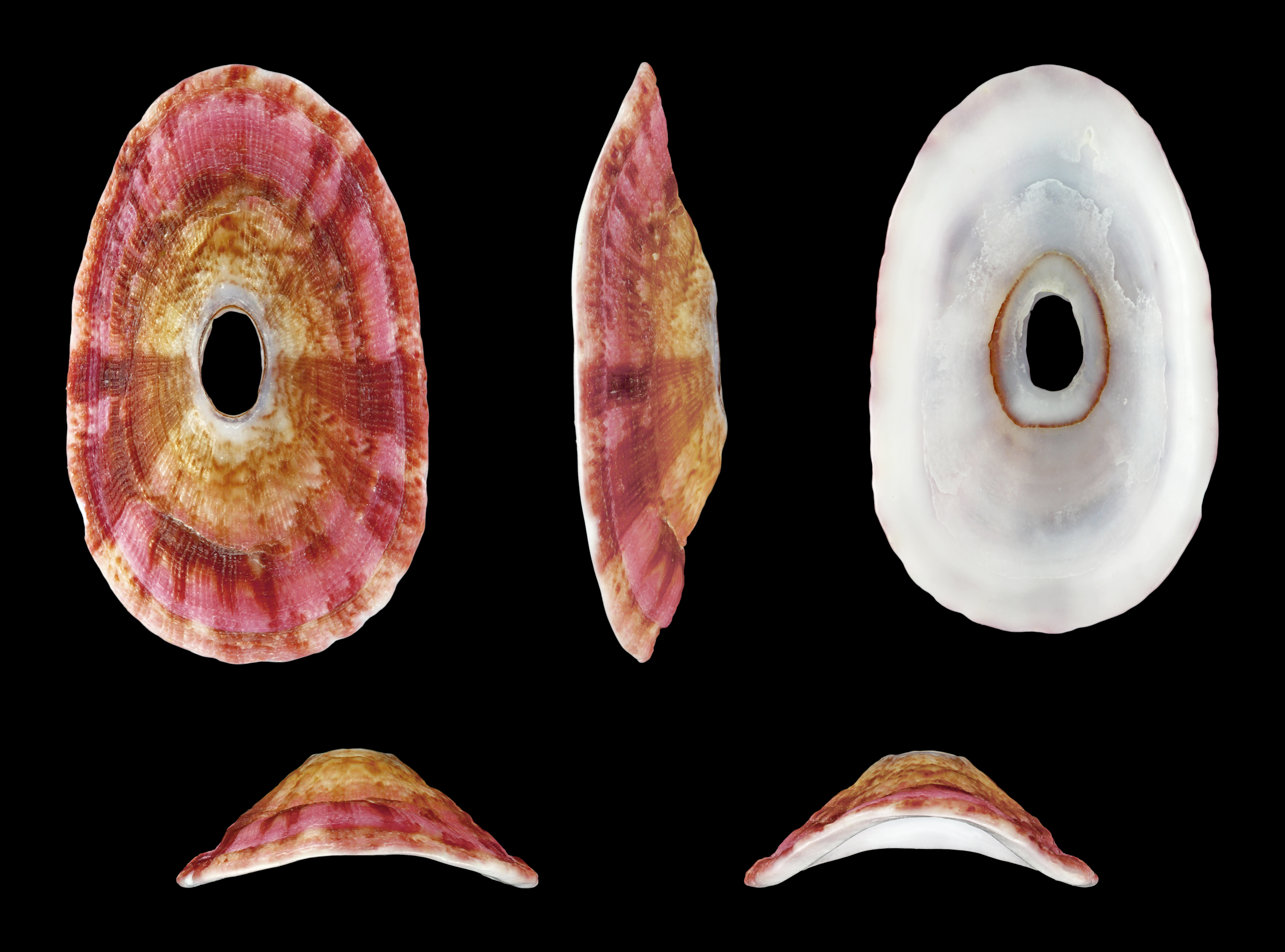 Length 2.4 cm; Originating from Jeffreys Bay, South Africa; Shell of own collection, therefore not geocoded.